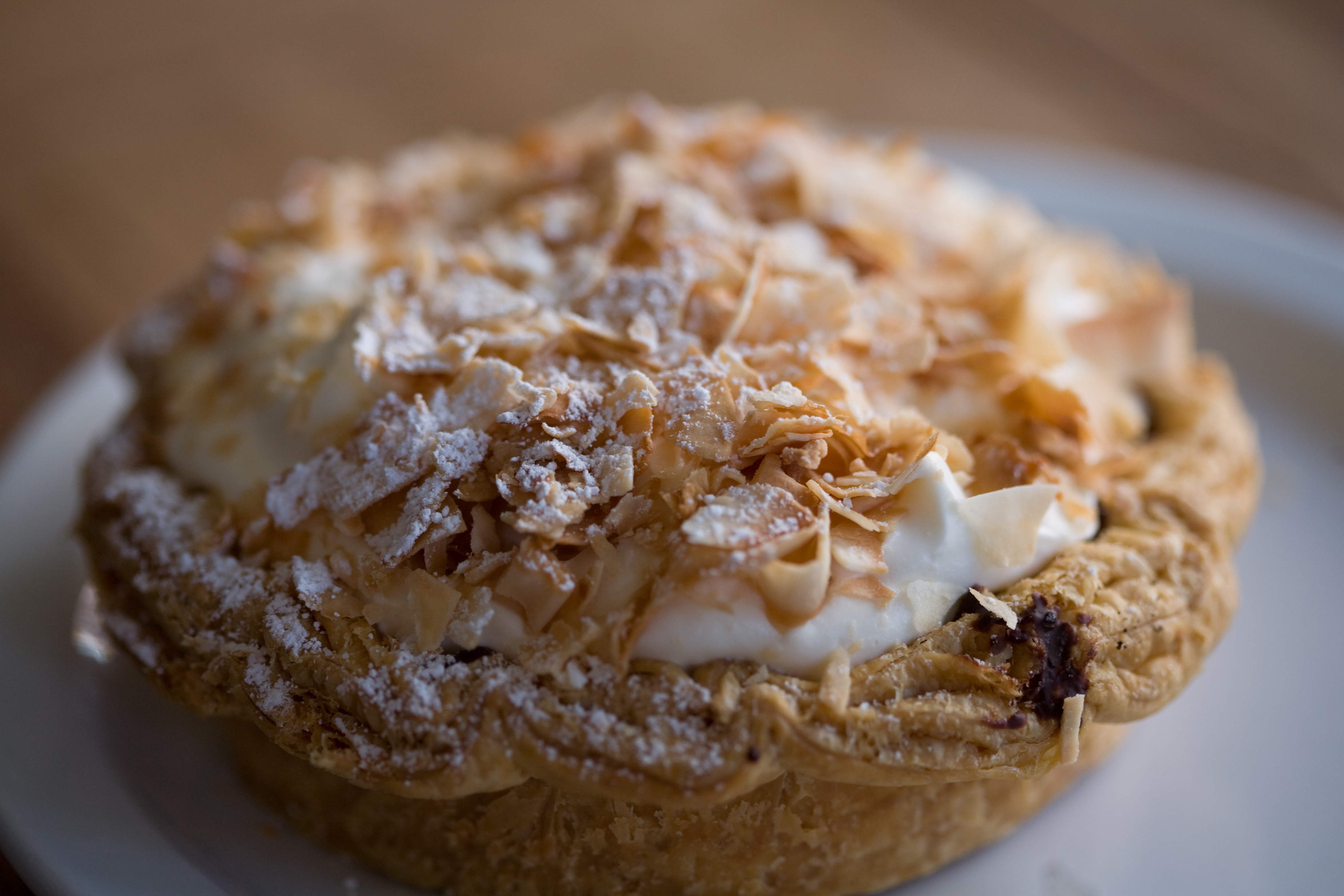 Coconut tart